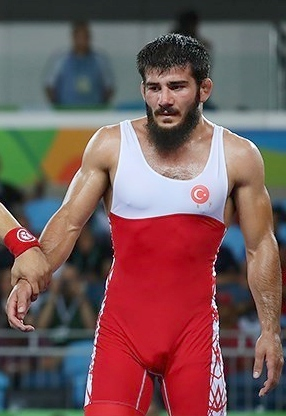 2016 Summer Olympics, Men's Freestile Wrestling 74 kg